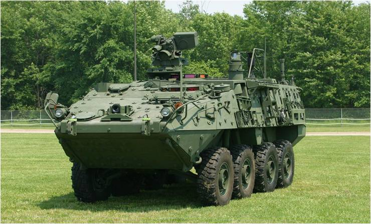 M1135 Nuclear, Biological and Chemical Reconnaissance Vehicle